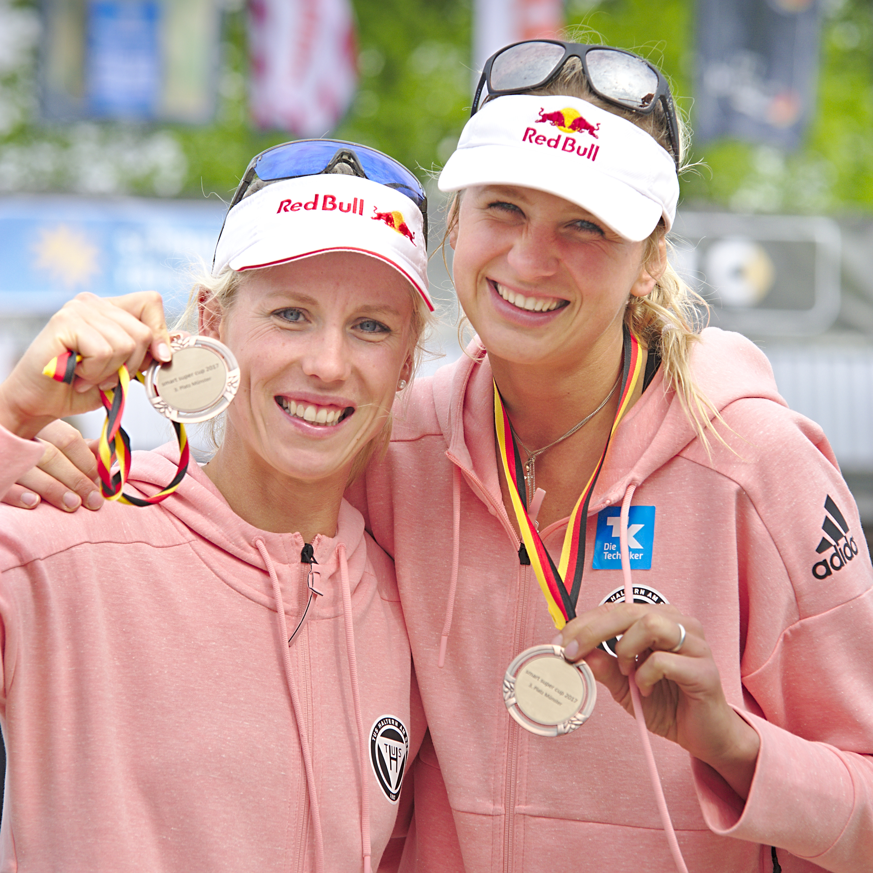 The German beach volleyball players Karla Borger (left) and Margareta Kozuch (right) at the Smart Beach Tour tournament in Münster 2017.